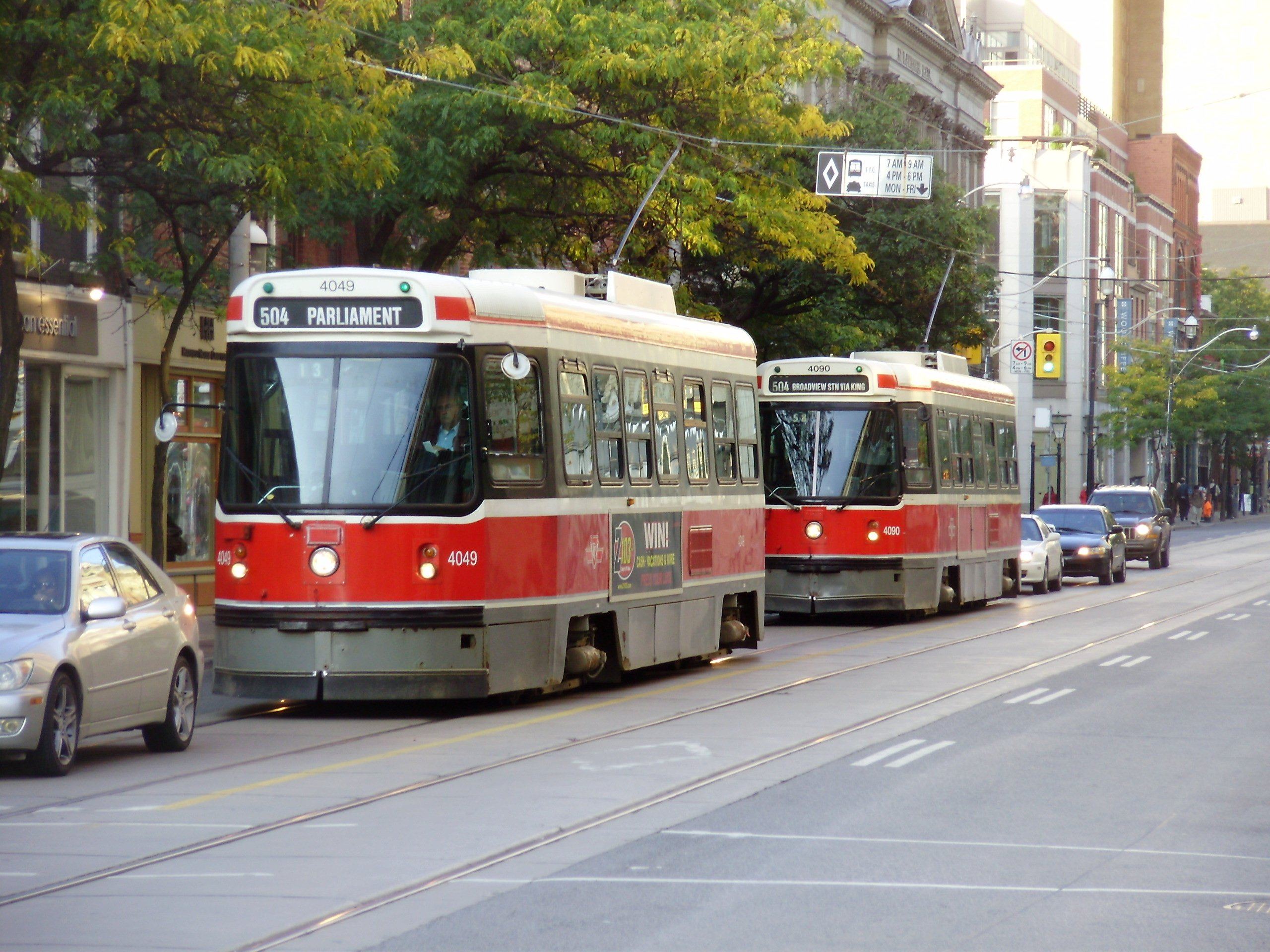 The Toronto Transit Commission's CLRVs #4049 and #4090 travel east on King Street East while serving the 504 King streetcar route during morning rush hour. The first car is routed to short turn at Parliament Street while the second will continue to the route's eastern terminus at Broadview Station.